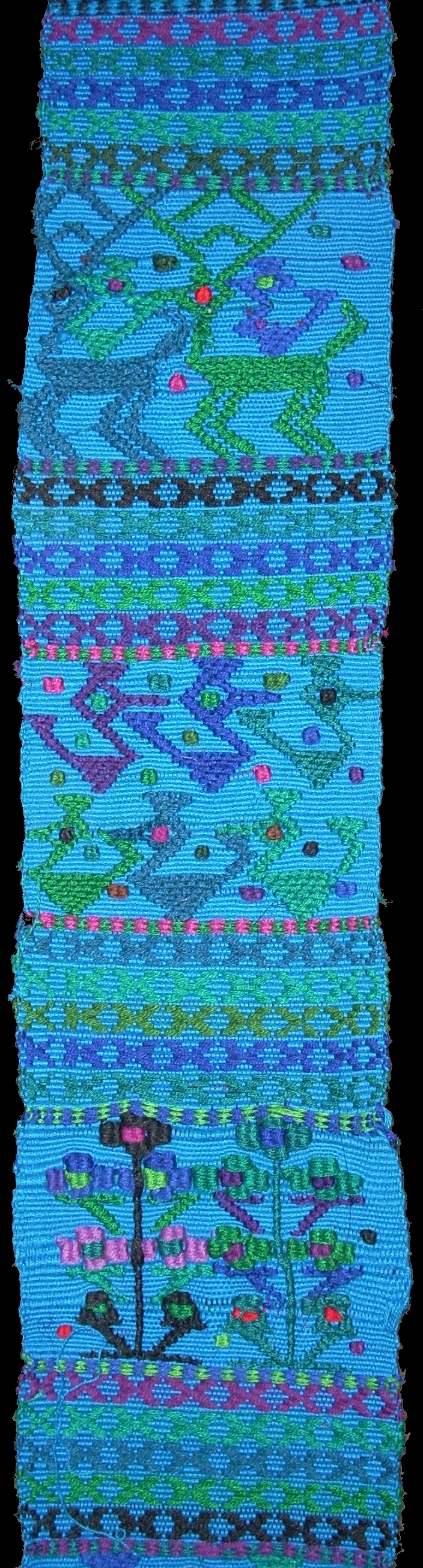 Sash of a type made and worn by the Kaqchikel Maya women of Santa Catarina Palopó, on the shores of Lake Atitlán in the Guatemalan highlands. This piece was purchased in early 2007.